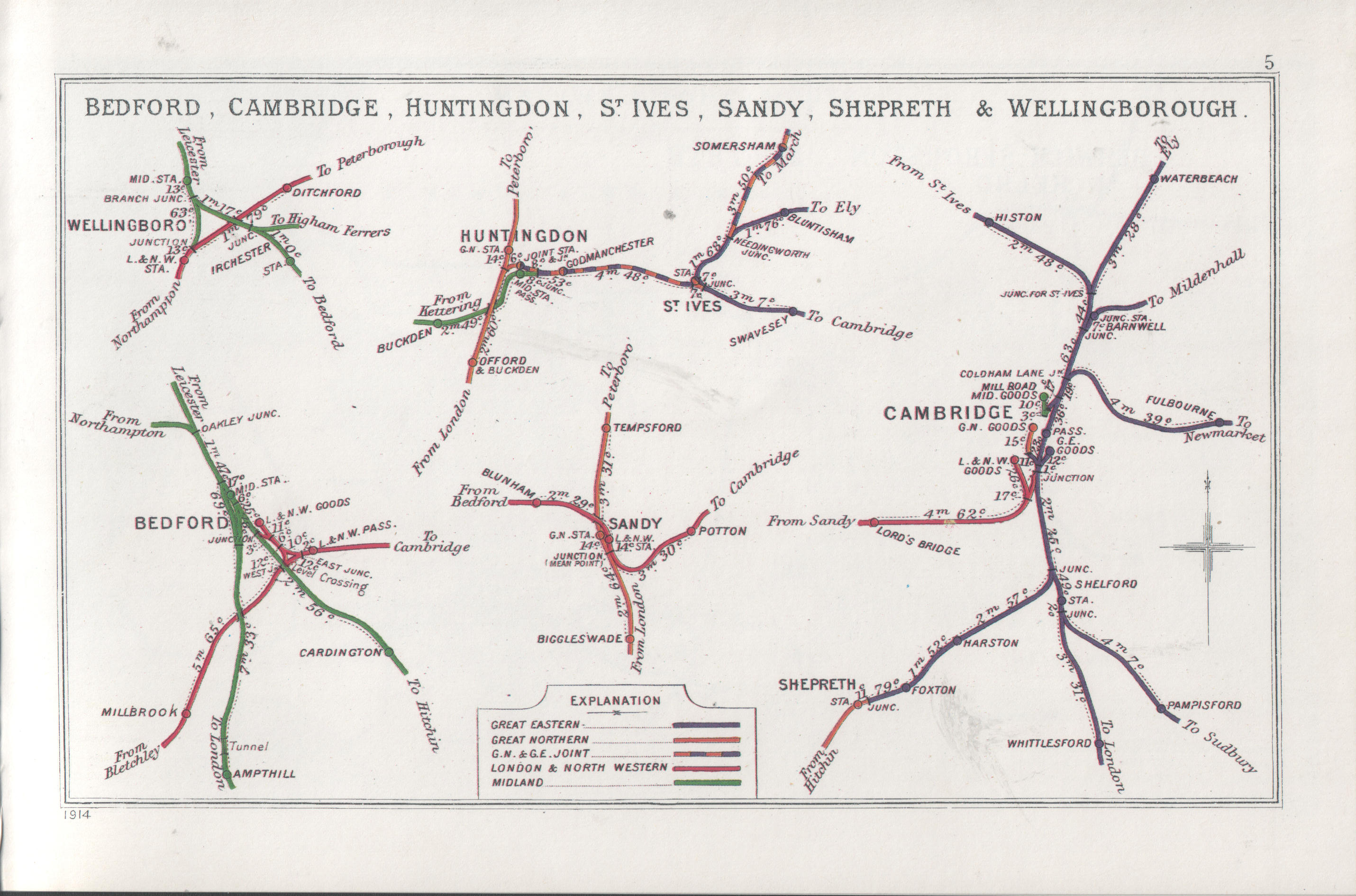 Pre Grouping railway junction around Bedford, Cambridge, Huntingdon, St Ives, Sandy, Shepreth & Wellingborough